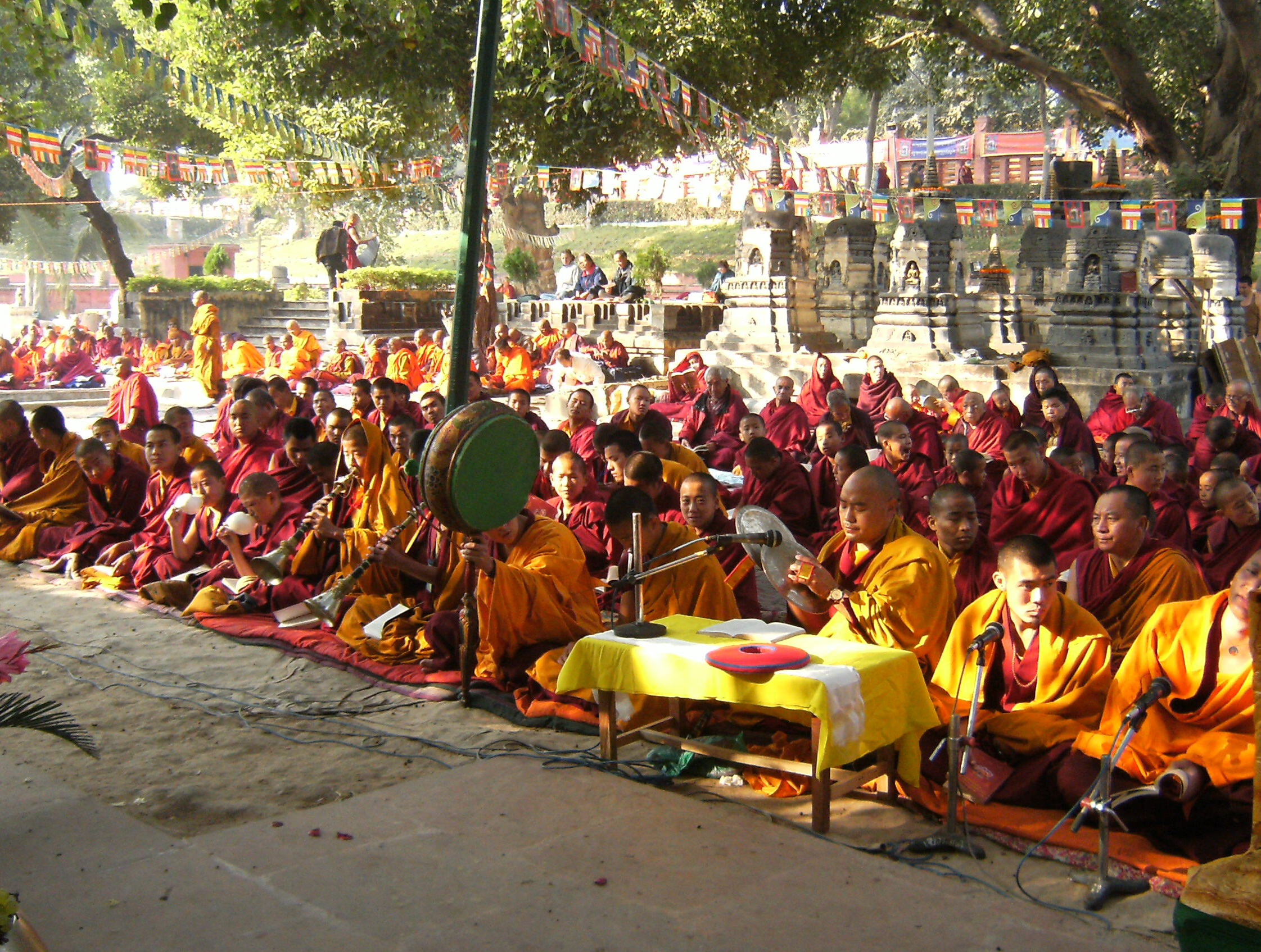 Tibet monk prays in Mahabodhi Temple Bodh Gaya,Bihar, India.